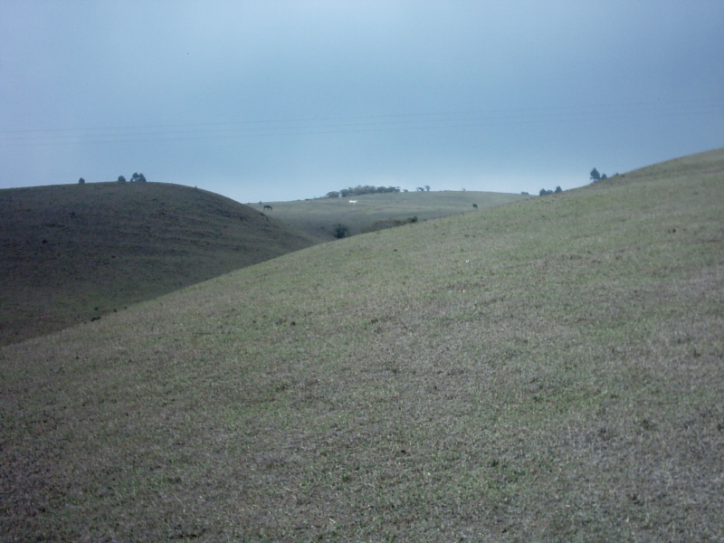 tomada en las faldas del cerro pircas en Pózul, Loja